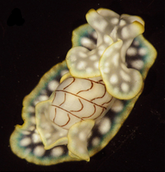 Photo of Micromelo undatus (Bruguière, 1792) (Acteonoidea) – Queensland, Australia.